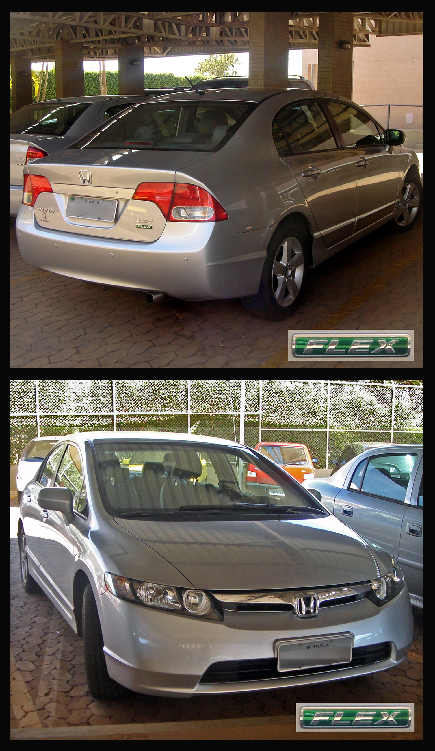 Brazilian flex-fuel version of Honda Civic LXS Flex 2008, shown frontal and rear view with Flex version logo.